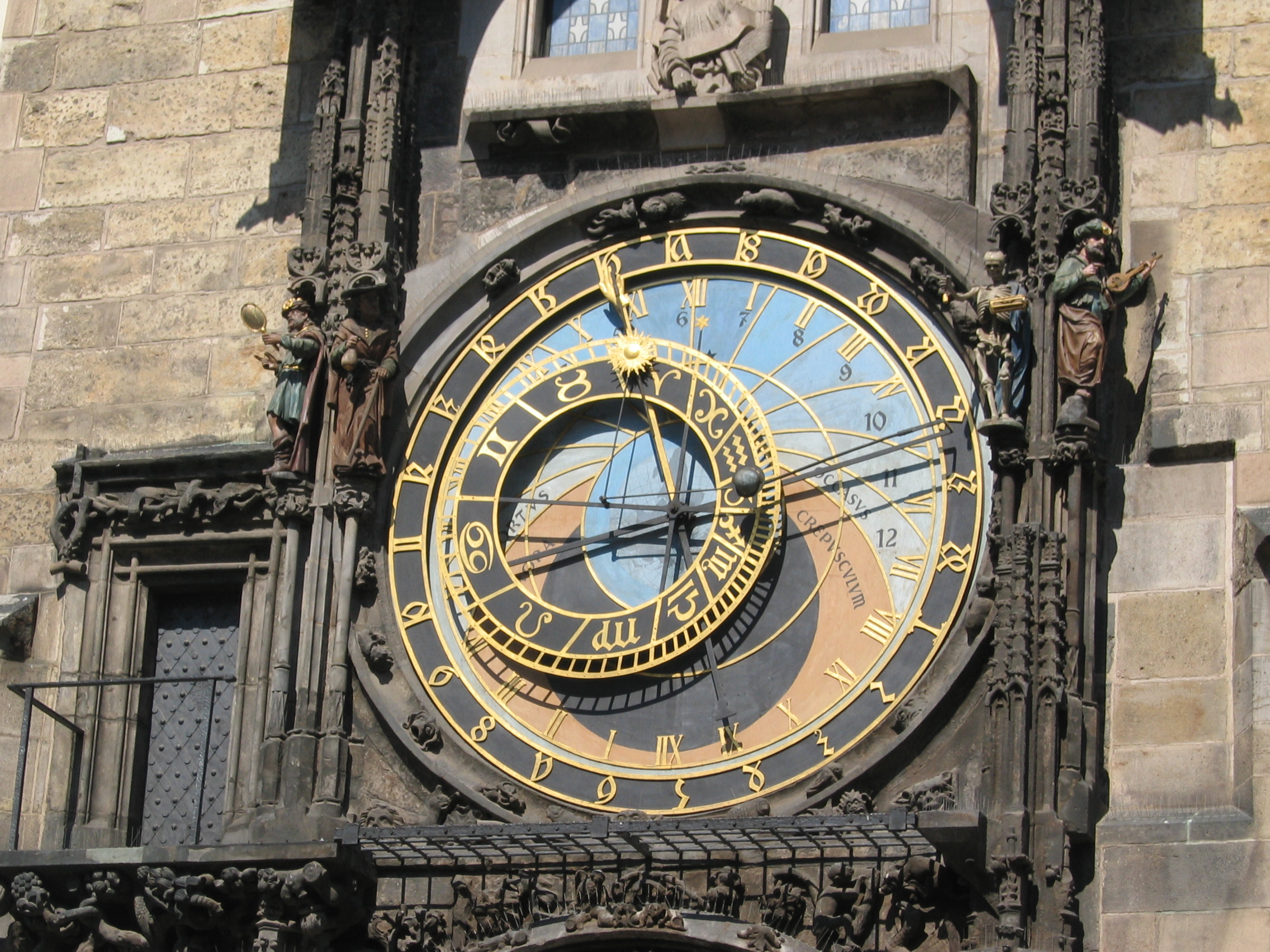 The Astronomical Clock in Prauge